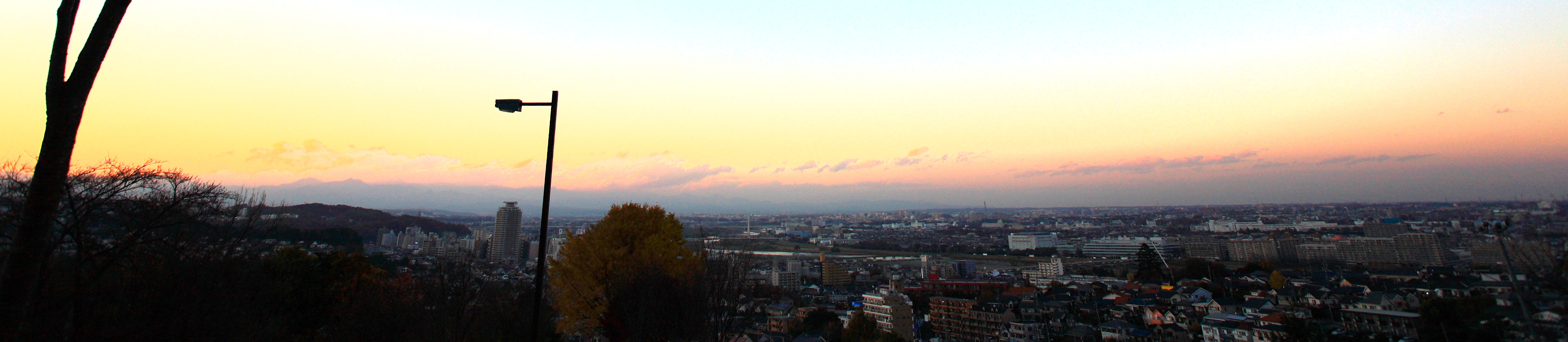 Sunset over Tama-shi, west of Tokyo proper, 29 November 2008. View from hill at Tama Sakuragaoka.